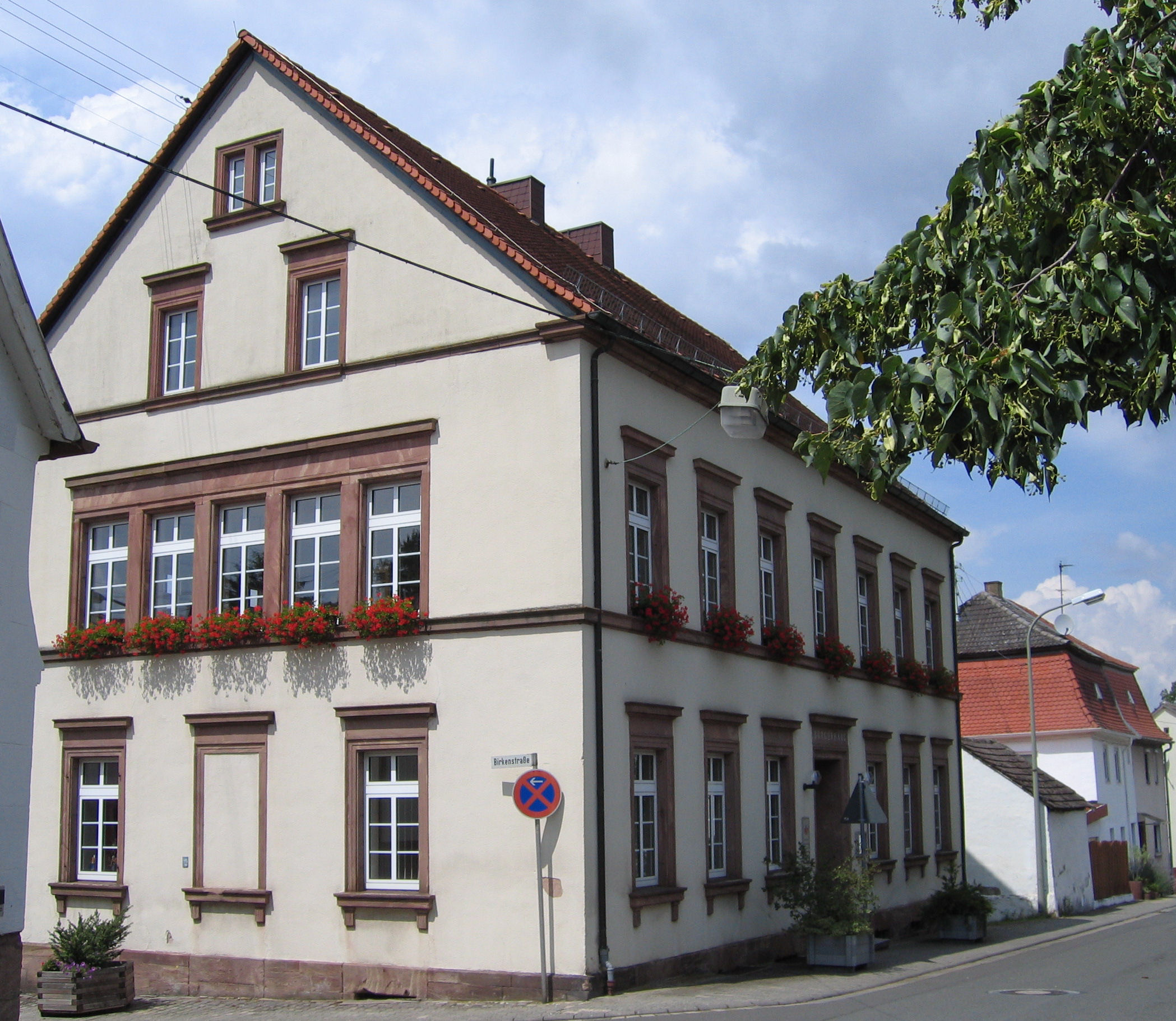 view of Sembach, Germany